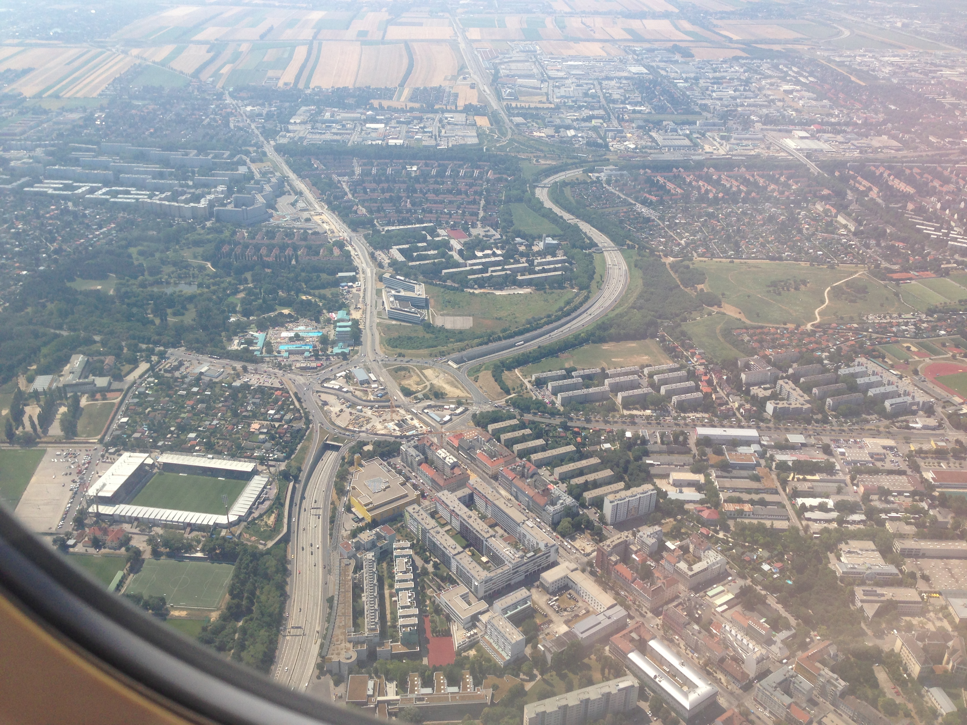 Vienna Aerials July 2013 - 06